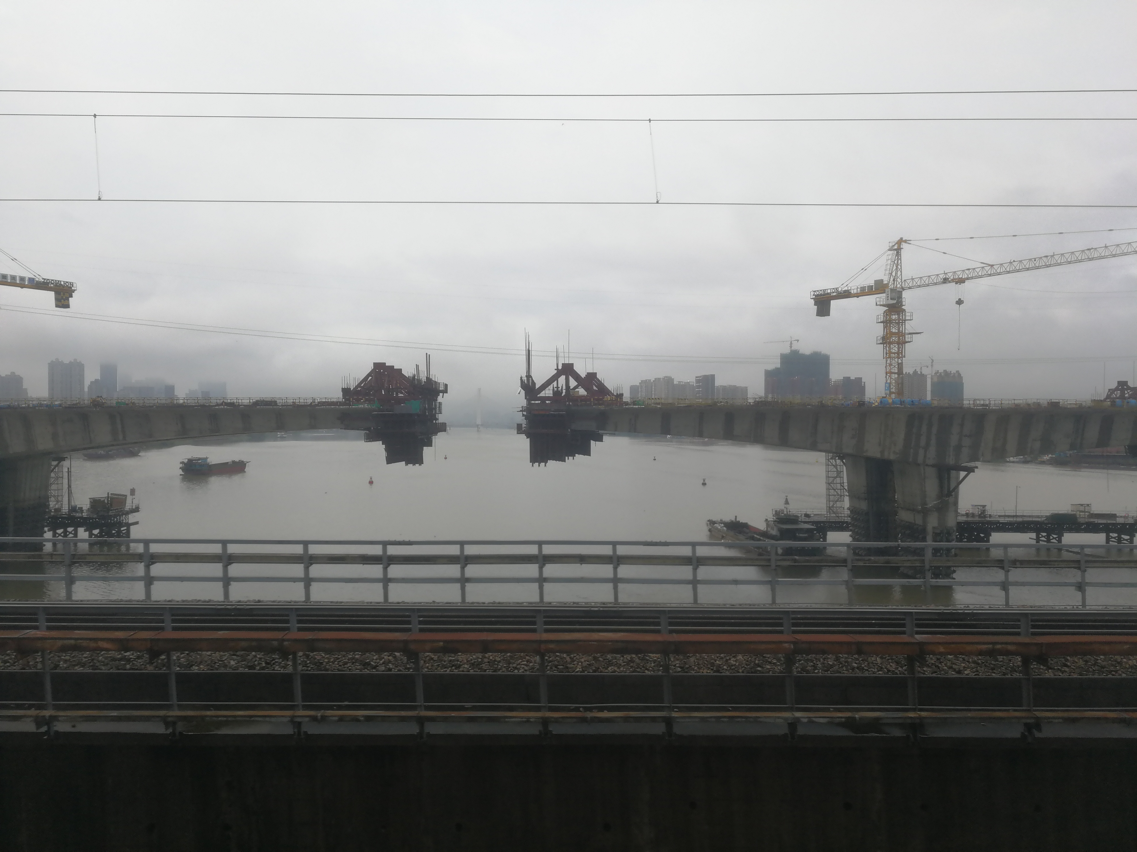 A view of Huixin Boulevard Dongjiang Bridge, which is still under construction, from Dongjiang Bridge on Beijing - Kowloon Railway.